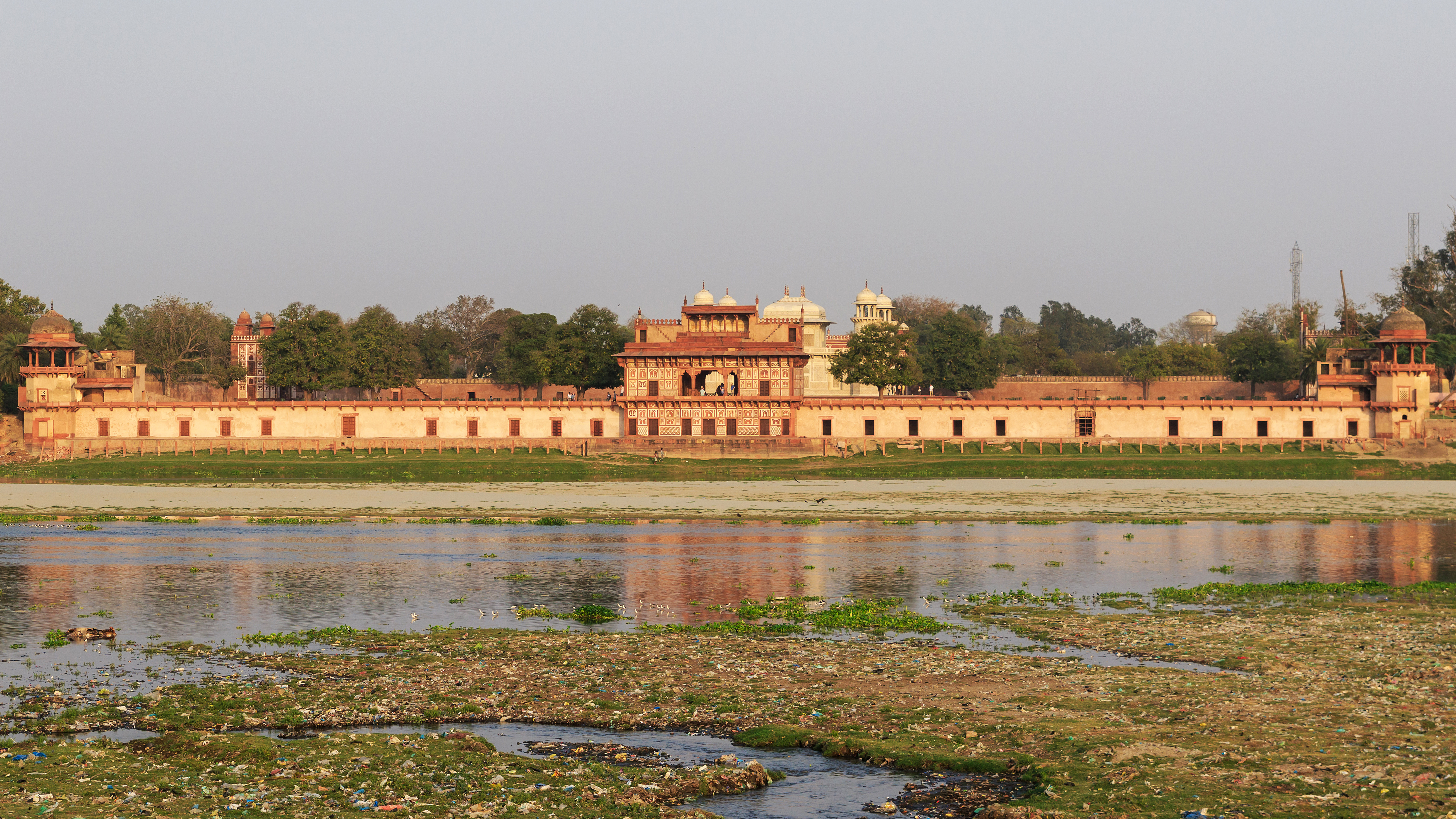 Tomb of Itmad-Ud-Daulah in Agra, India.